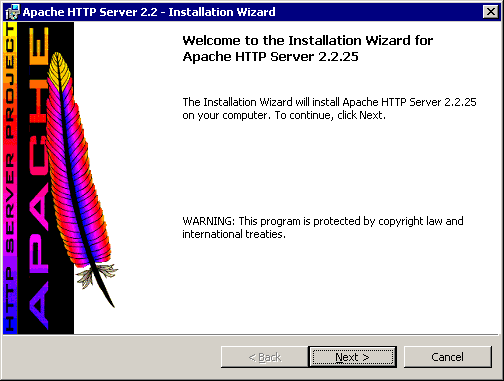 Screenshot of the installation window for the Apache HTTP Server, version 2.2.27